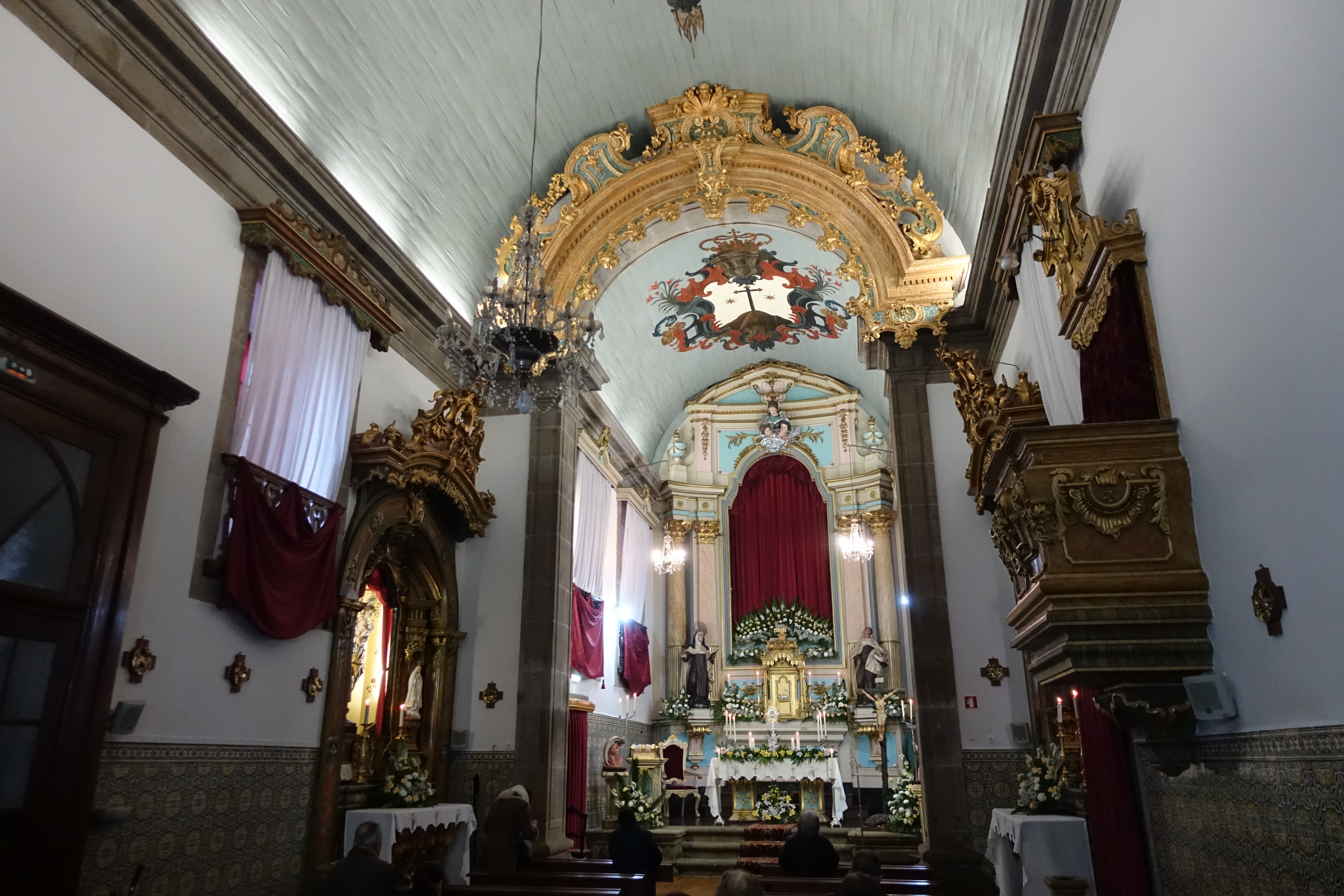 Interior of Saint Teresa of Ávila church in Braga, Portugal.